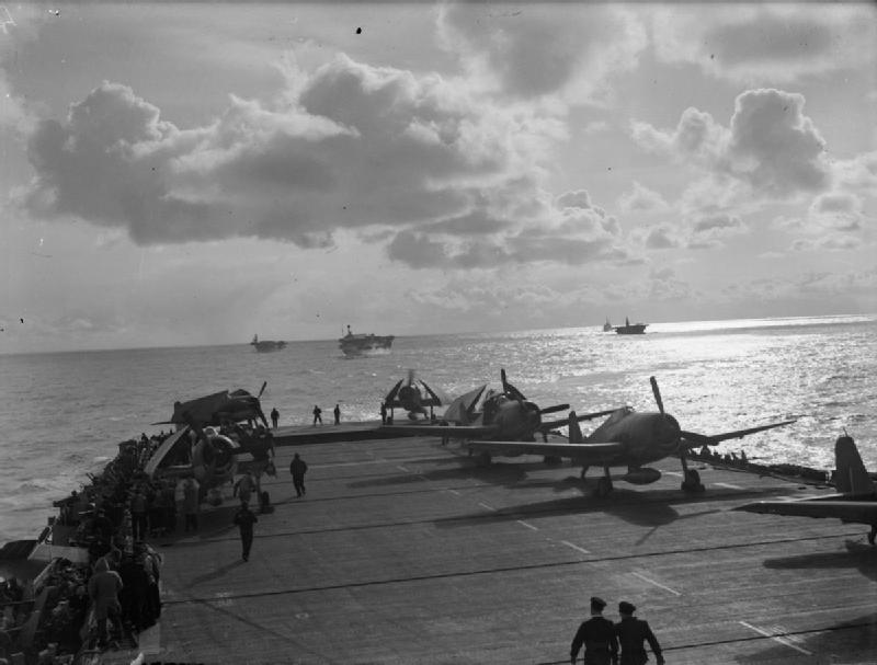 Background : Some of HM Ships of the British Home Fleet, HMS FURIOUS (nearest), HMS SEARCHER, HMS PURSUER, and HMS JAMAICA, which took part in the attack on the TIRPITZ on 3 April 1944 in Alten Fjord which left her blazing. Foreground : Grumman Hellcats on deck of HMS EMPEROR.